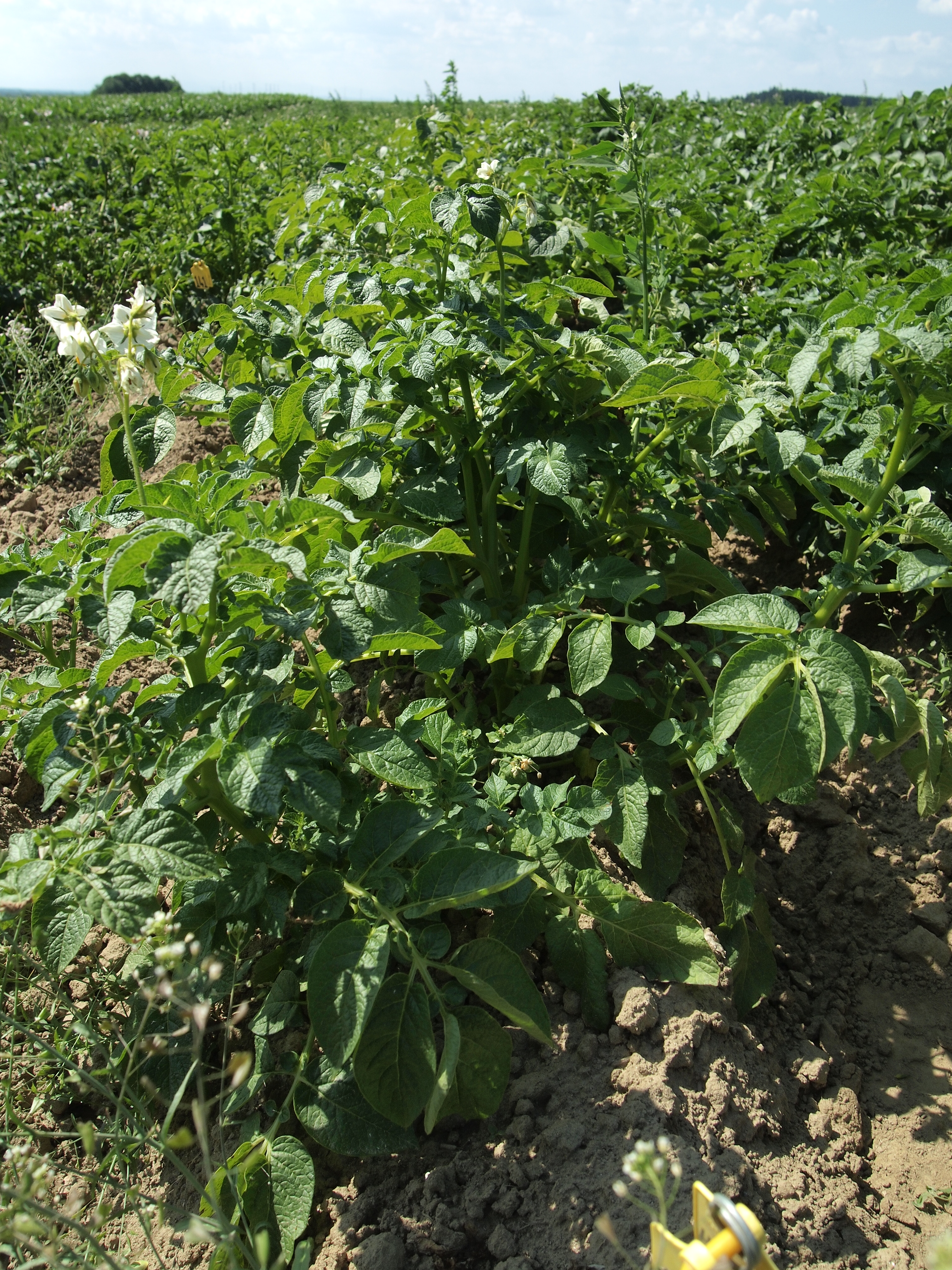 This potato-picture was taken by Ordercrazy with permission of Christian Müller from Aletshofen, municipality of Ettringen, Germany.